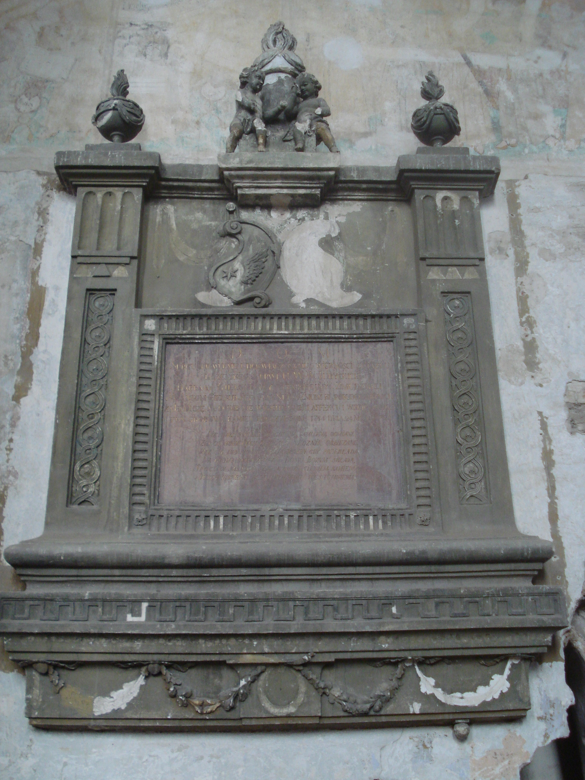 The Church of Saint Francis and Saint Bernardino in Vilnius (Šv. Pranciškaus ir Bernardino, arba Bernardinų, bažnyčia; Kościół Śww. Franciszka i Bernardyna; Maironio 10). Tombstone vel epitaph for W. Judycki (d. 1789)